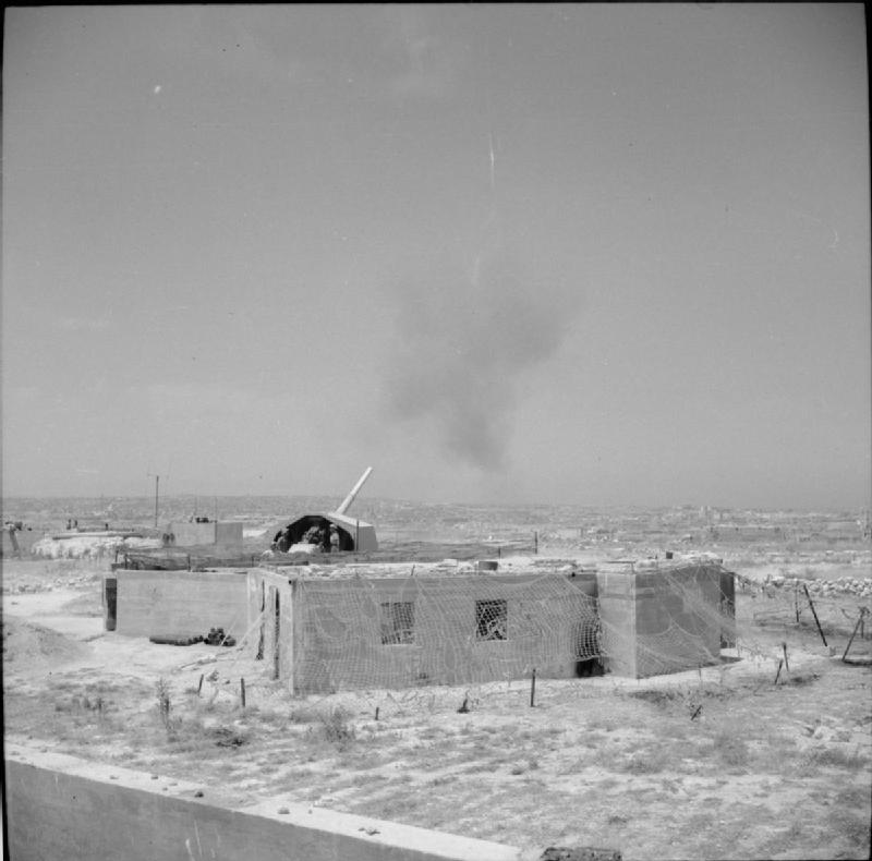 A 4.5-inch anti-aircraft gun opens fire during an air raid on Malta.